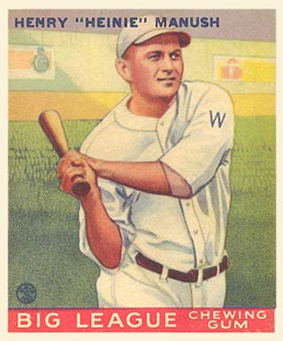 1933 Goudey baseball card of Heinie Manush of the Washington Senators #47.